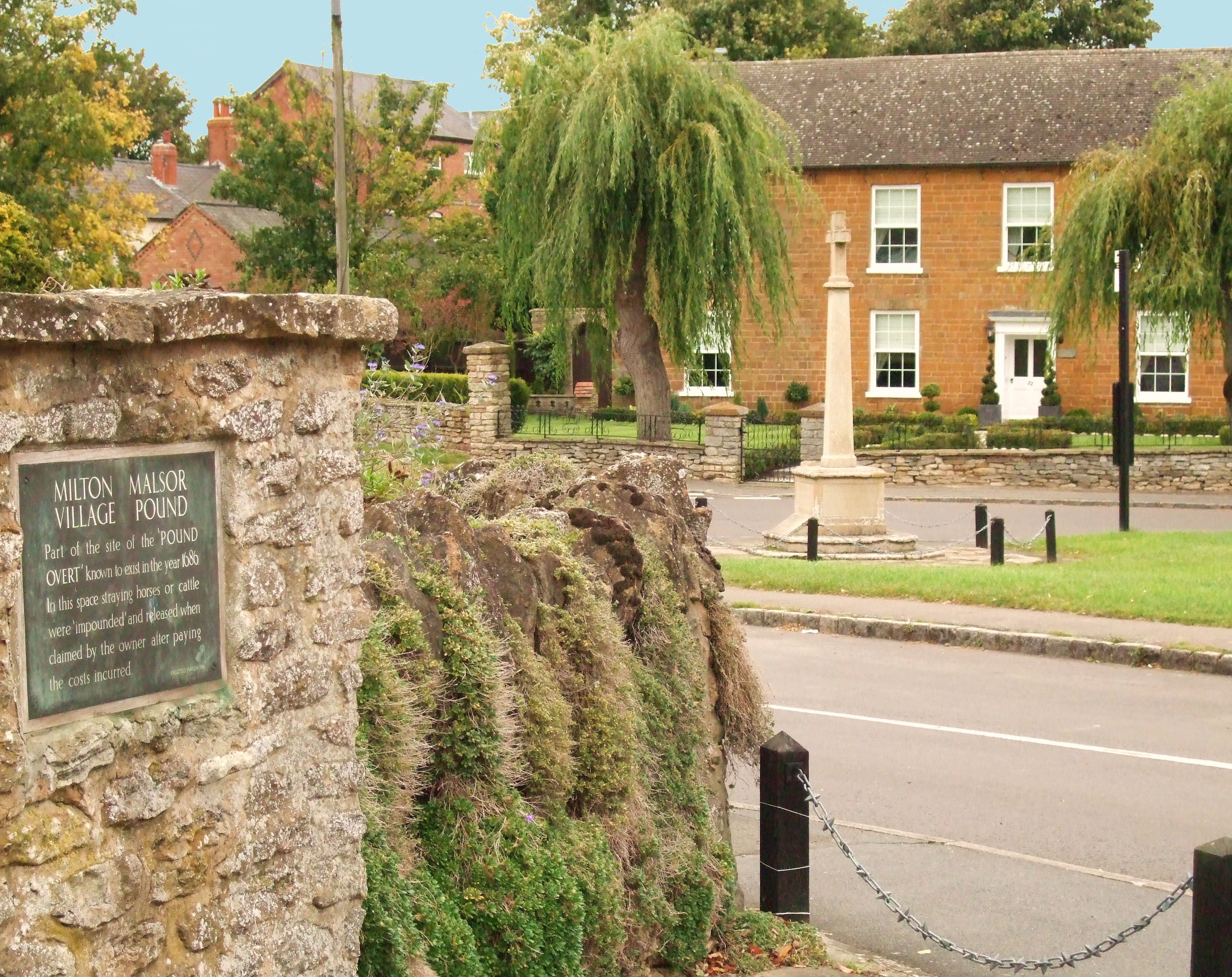 Site of the pound in Milton Malsor, England